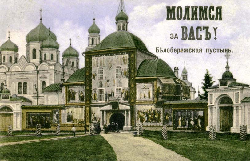 Beloberezhskaya pustyn, near Bryansk.